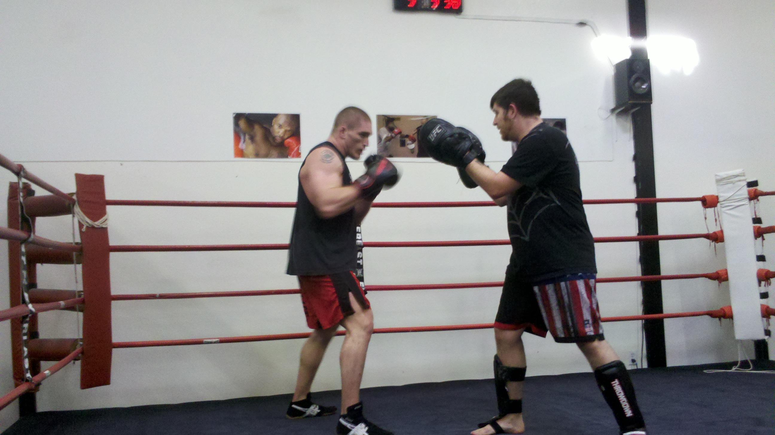 Picture of Todd Duffee, professional MMA fighter taken by his brother Bram Duffee.